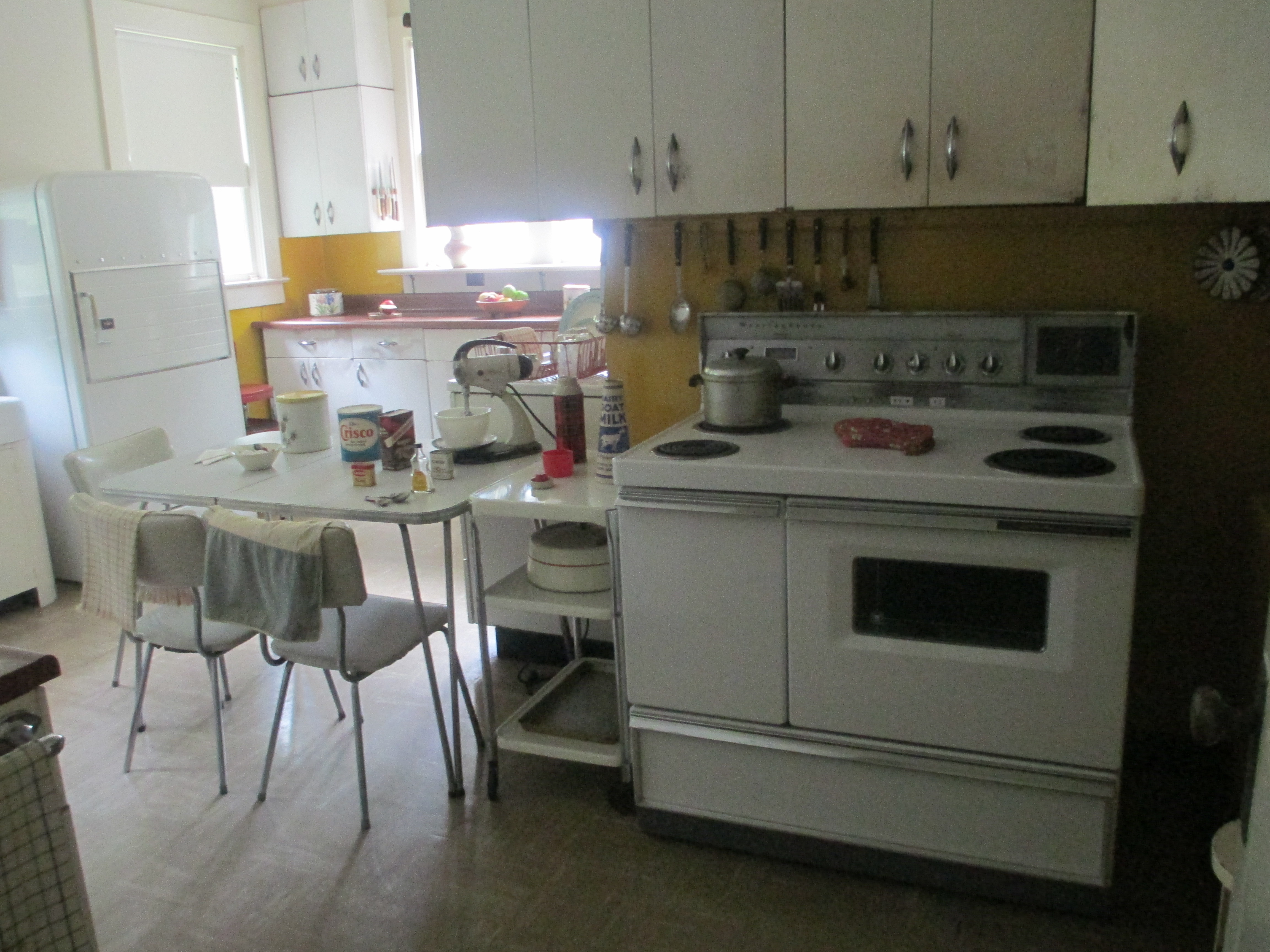 I took photo with Canon camera of the 1950s-era kitchen in Carl Sandburg's home.